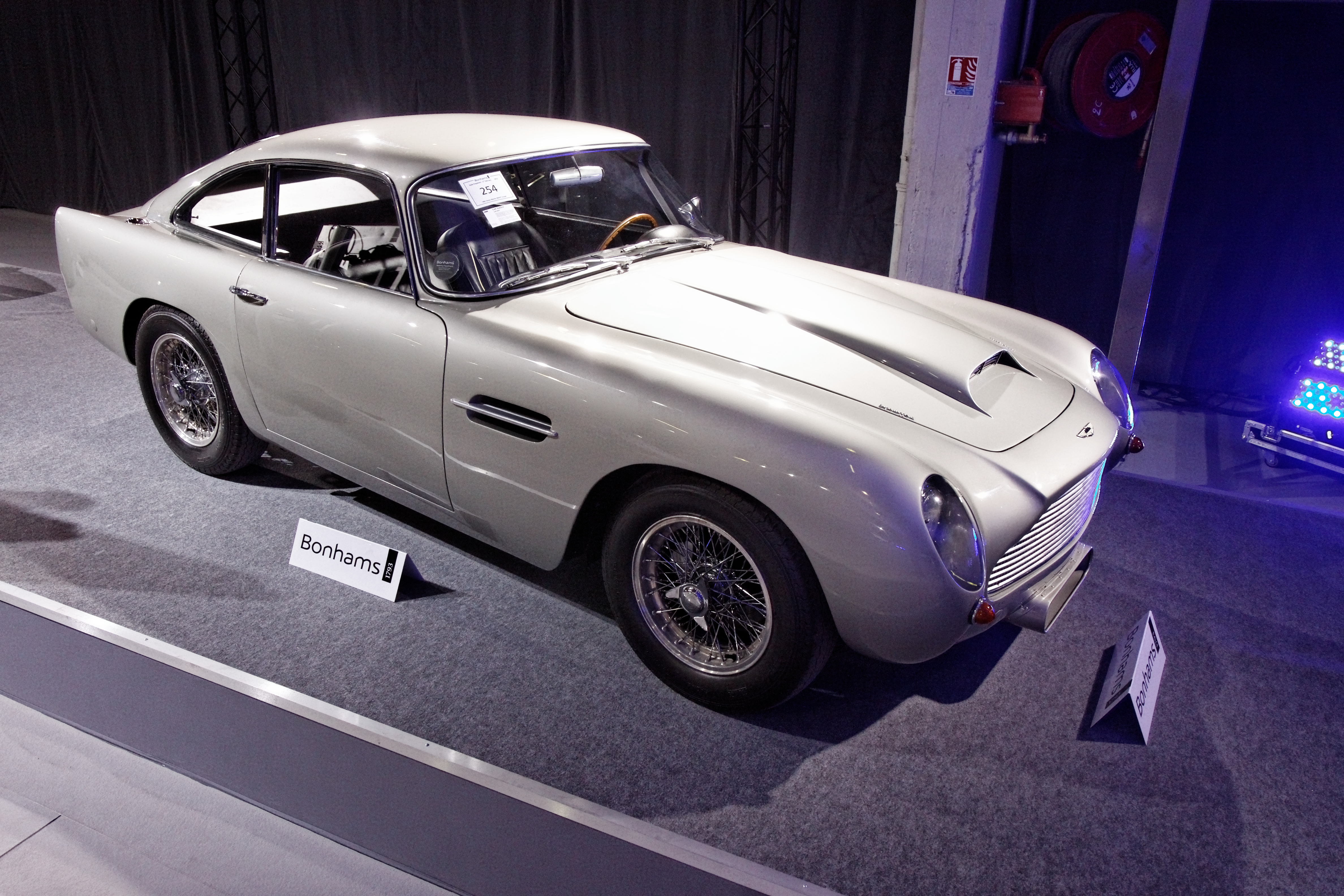 Aston Martin DB4GT Coupé